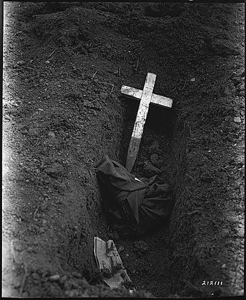 U.S. medical men are attempting to identify more than 100 American Prisoners of War captured at Bataan and Corregidor and burned alive by the Japanese at a Prisoner of War camp, Puerto Princesa, Palawan, Philippine Islands Picture shows charred remains being interred in grave., 03/20/1945